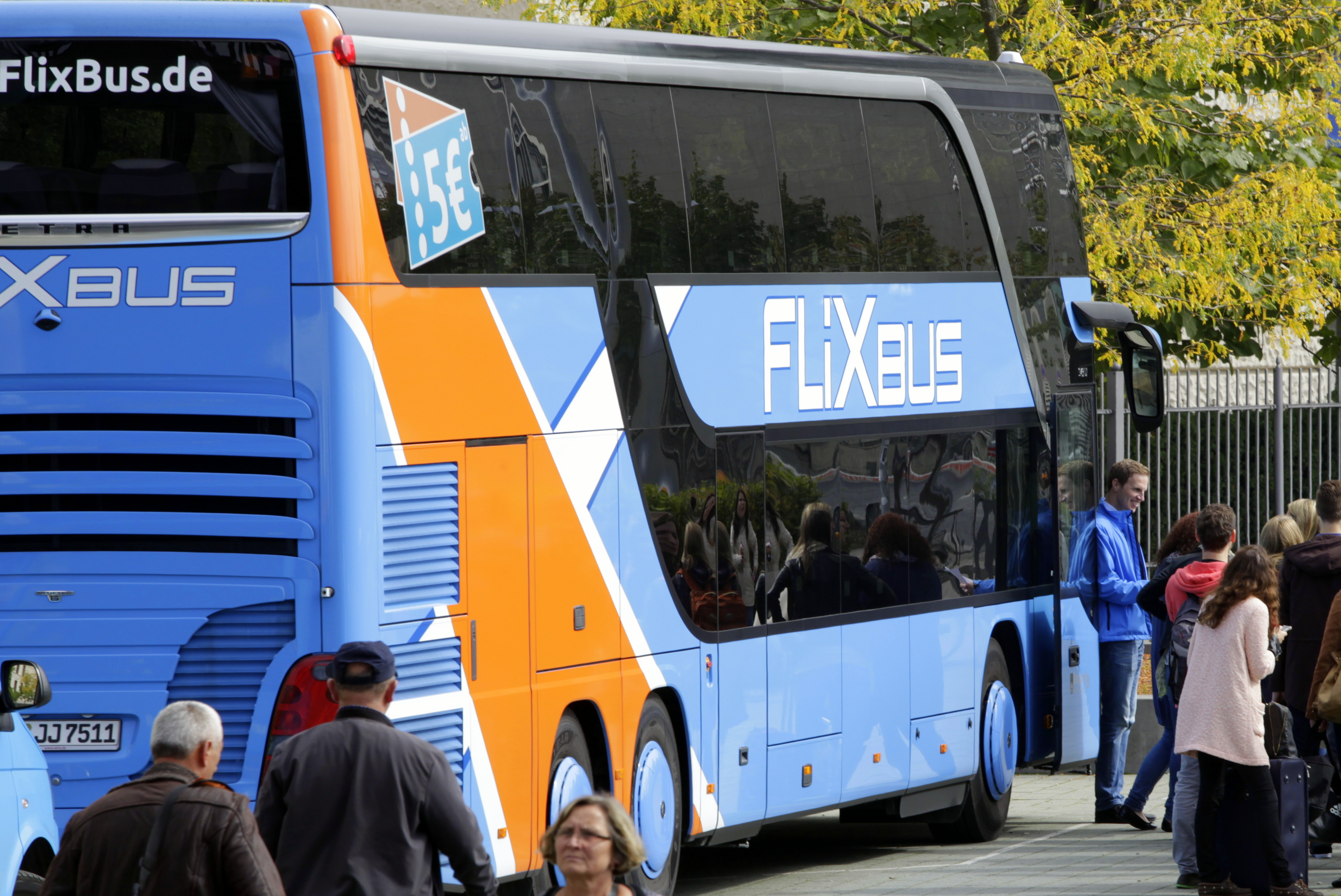 German travel bus